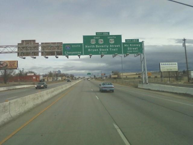 Interstate 25 southbound approaching exit 187 in Casper, Wyoming.